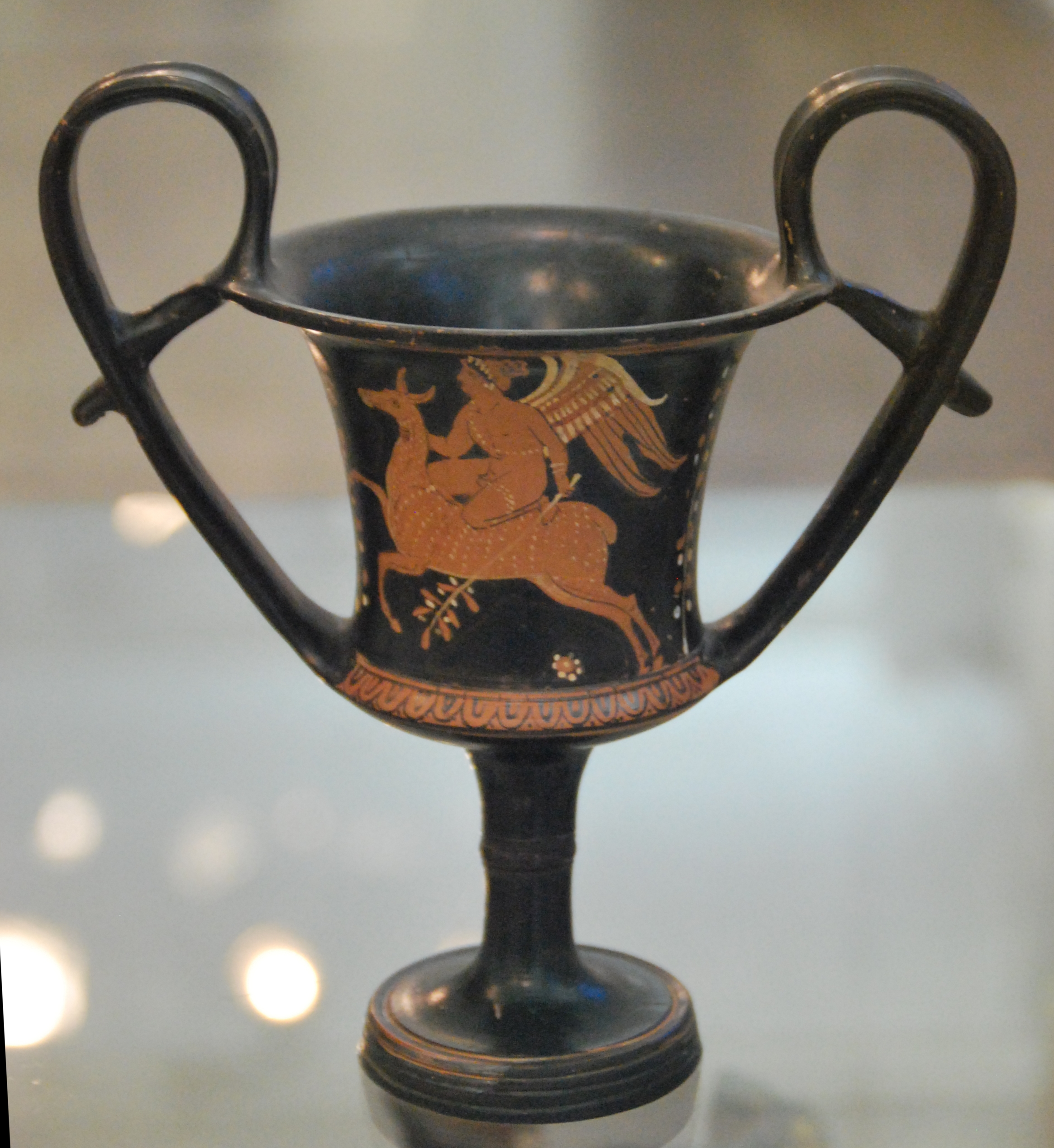 Apulian red-figure Kantharos by the Paidagogos Group depicting an Eros on a deer. About 340/30 BC. Antikensammlung Kiel, Inventory B 563.